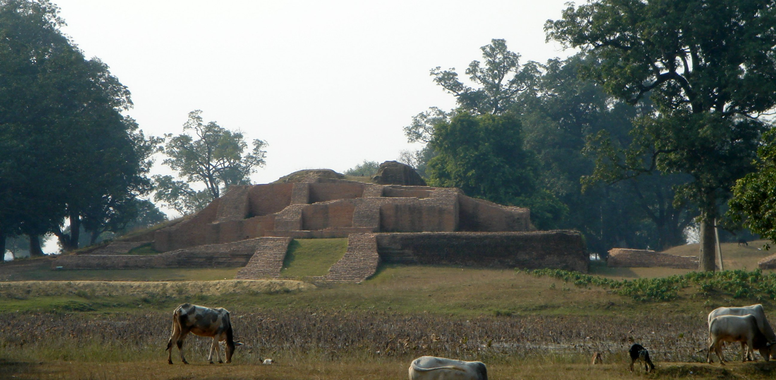 Nigrodharama Monastery (where Buddha used to stay), close to Kapilavastu (Tilaurakot) and Lumbini, in Nepal.